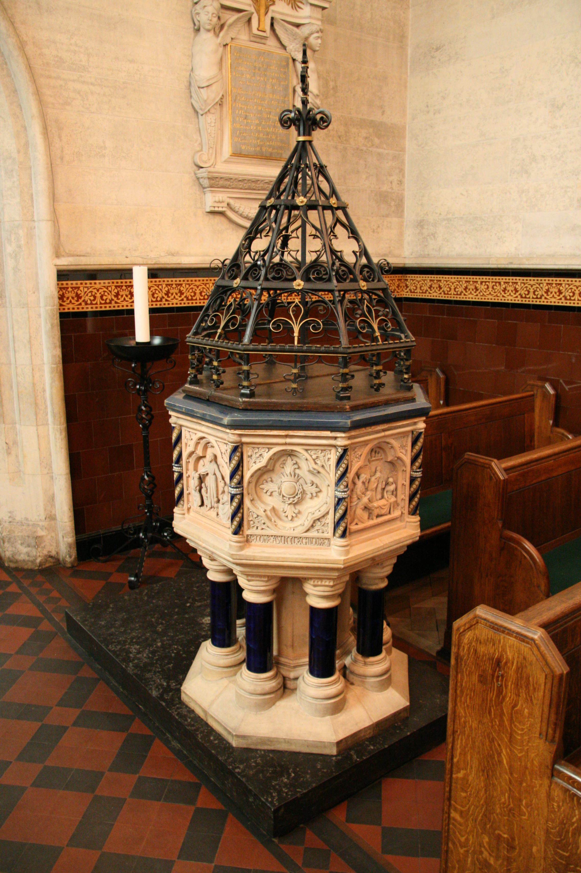 St. Alban's English Church, Copenhagen, Denmark Baptismal font